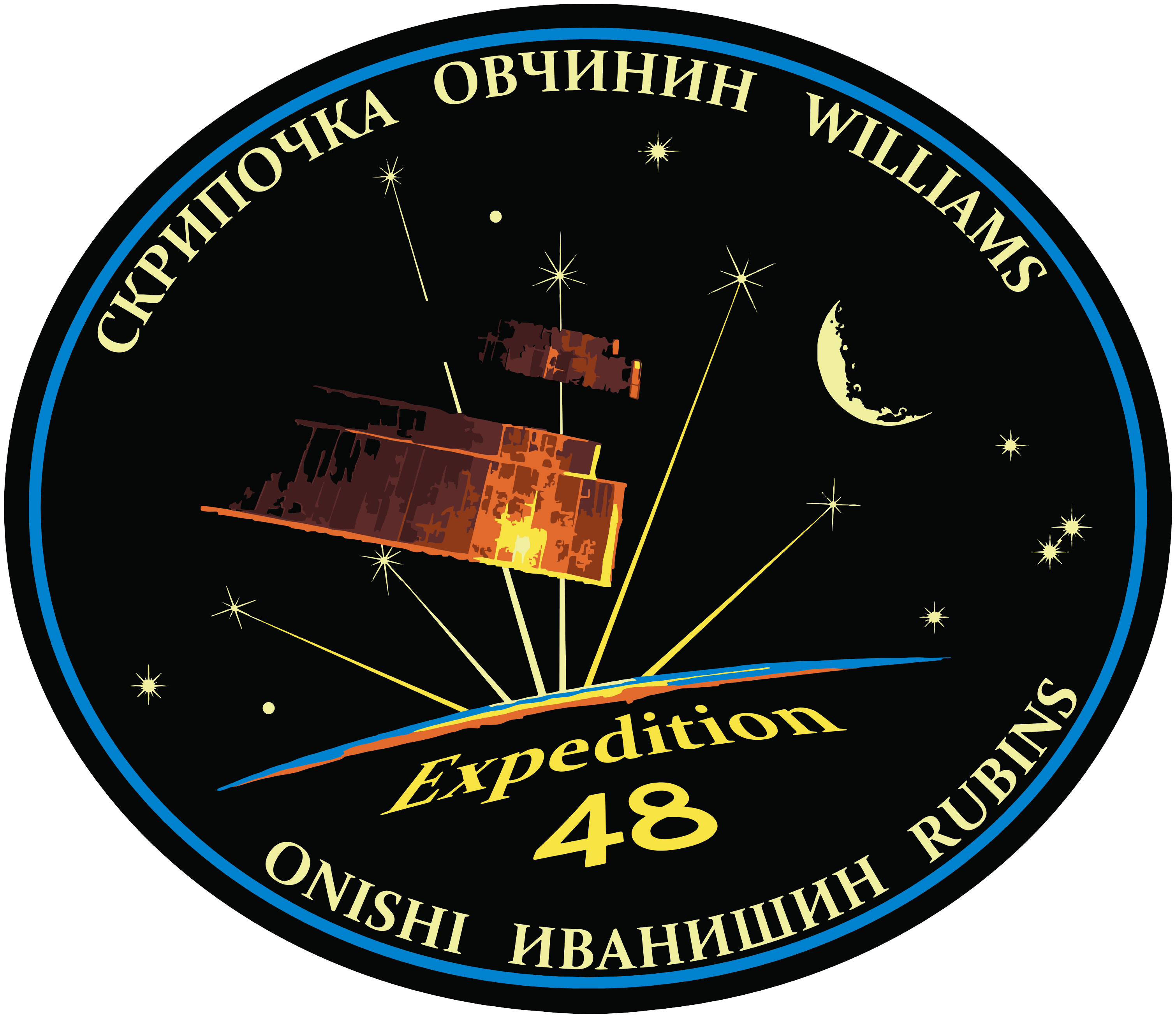 The Expedition 48 crew insignia